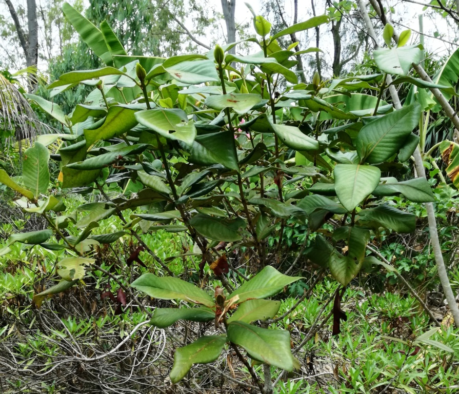 Pyrostria revoluta - endemic Bois Mangue - 5 senses garden